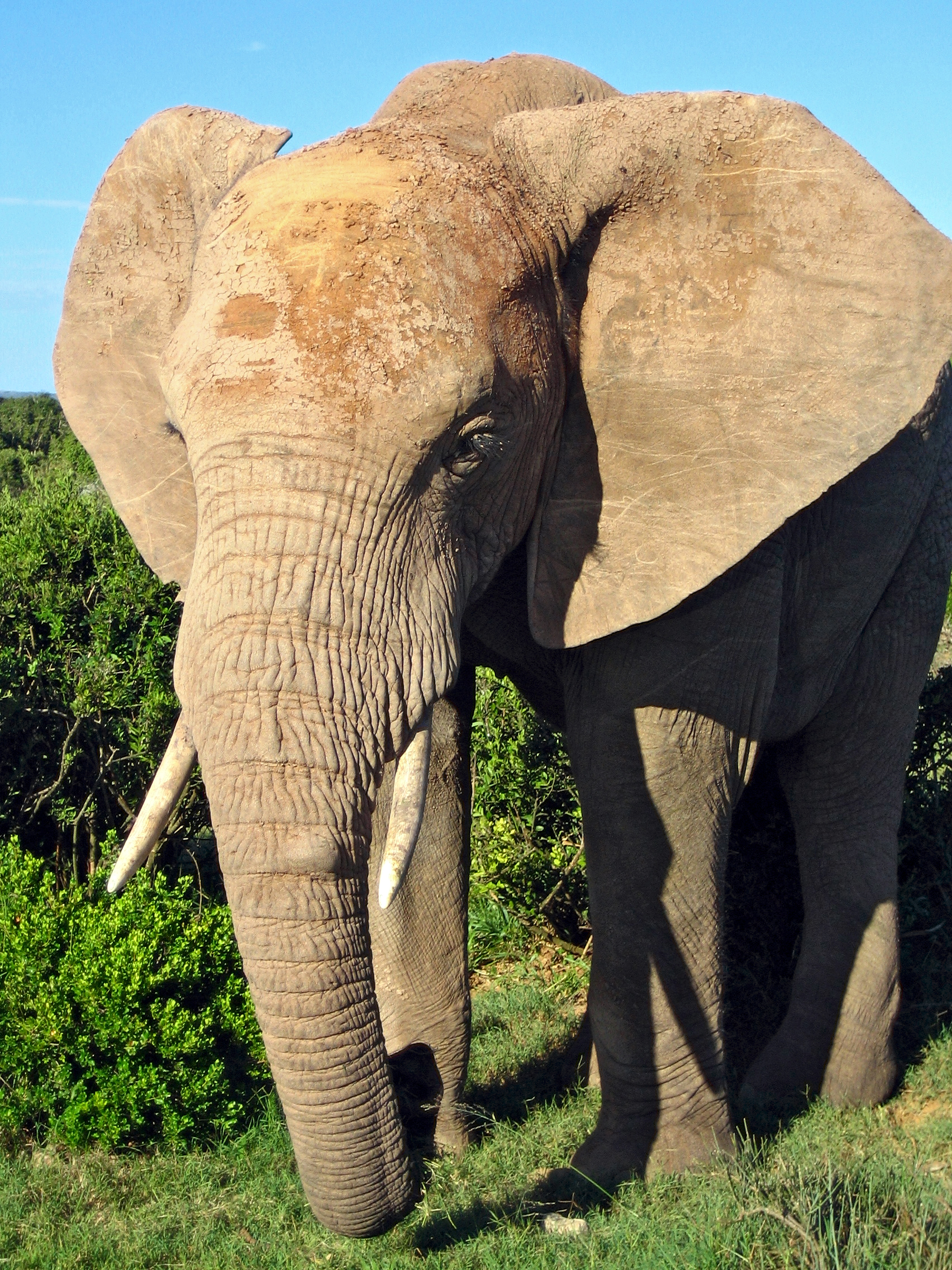 African Elephant in South Africa